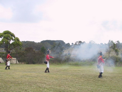 Old Sydney Town Shooting